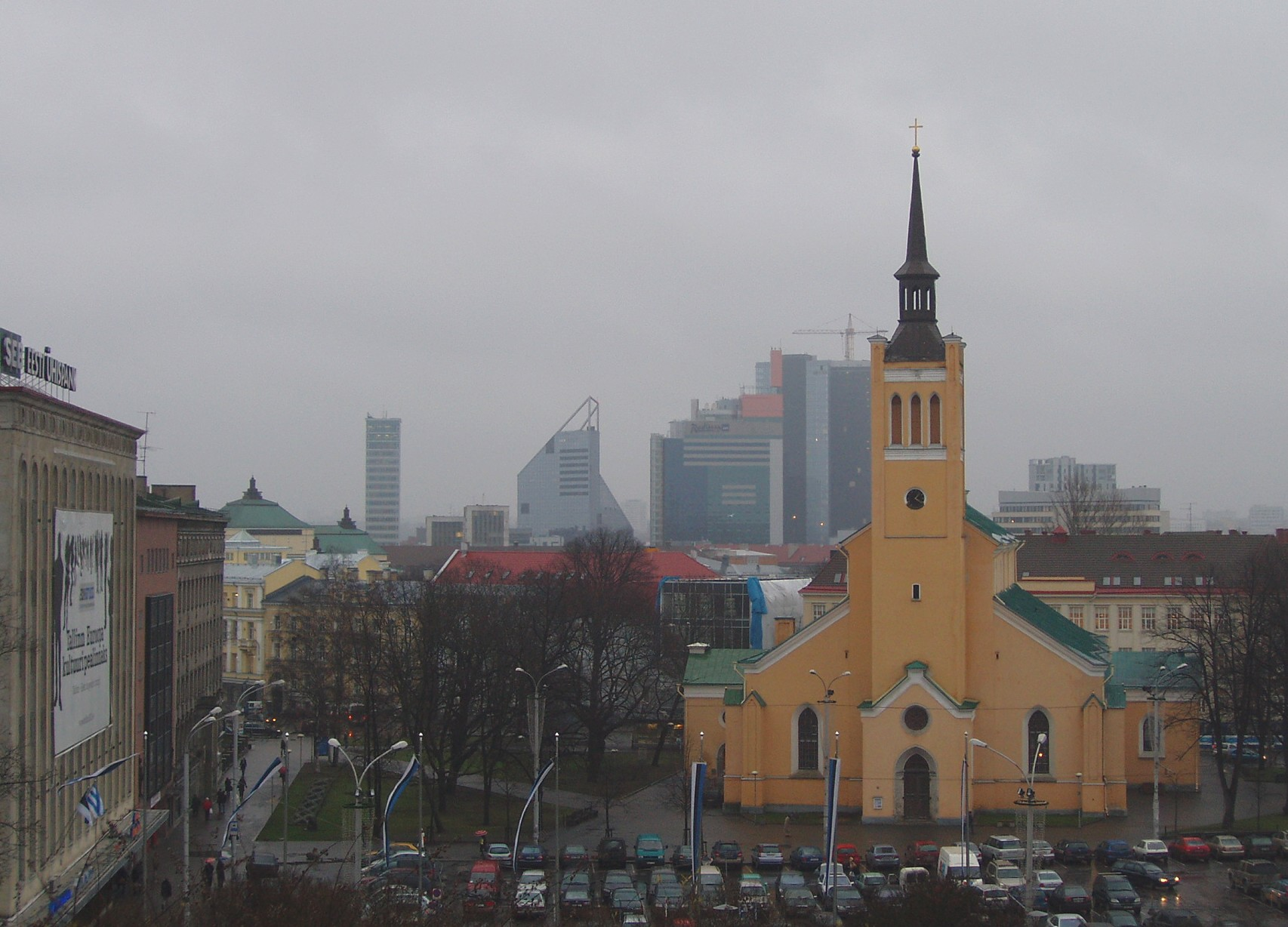 St. John's Church in Tallinn